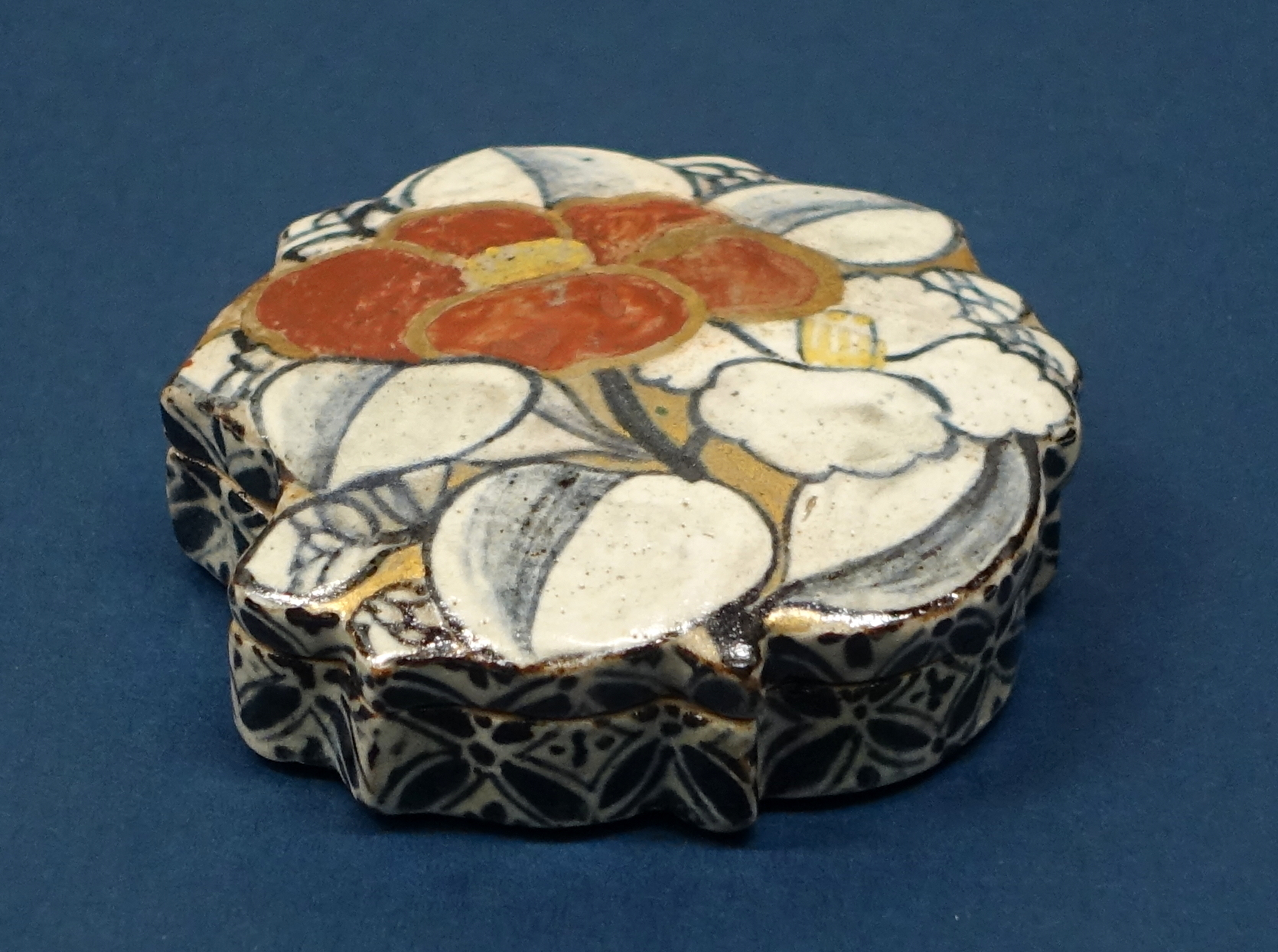 Exhibit in the Tokyo National Museum, Tokyo, Japan. This work is old enough so that it is in the public domain.